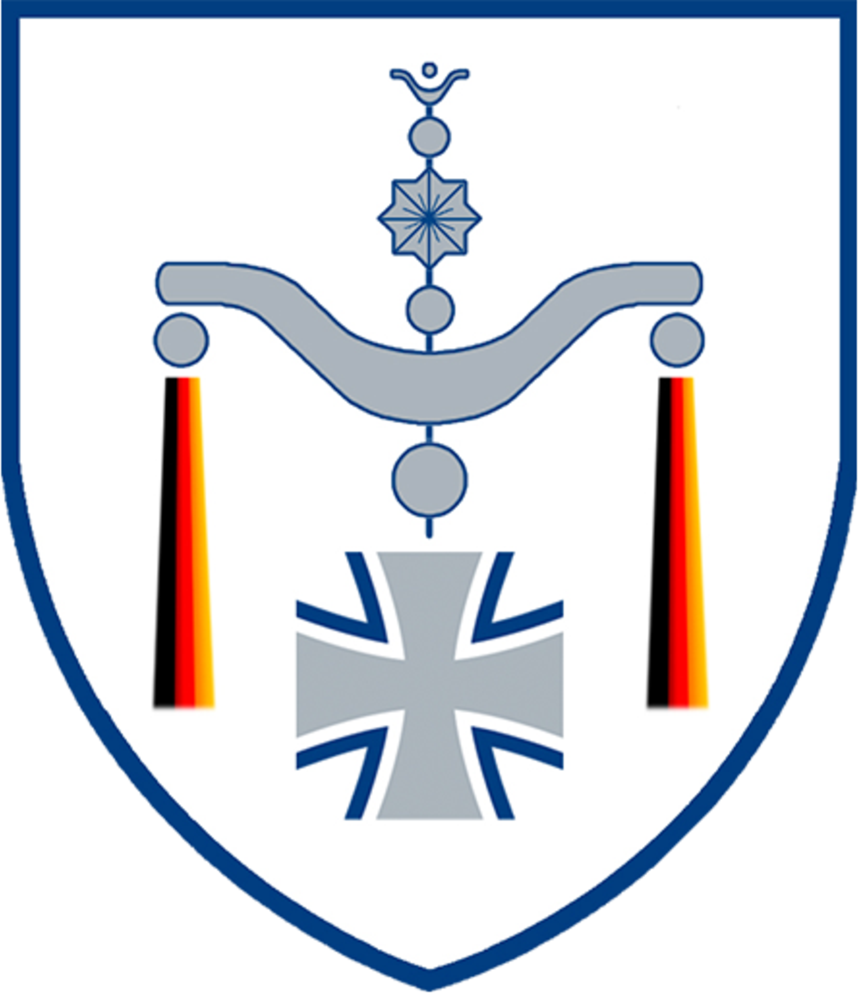 Internal coat of arms of the Bundeswehr (Armed Forces of the Federal Republic of Germany). → Remarks on naming and categorization scheme